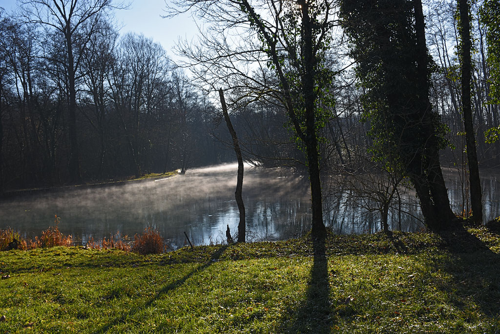 Near one of its sources (Santissima), Livenza river meanders through an marsh area, where important remains of neolithical man (pile dwellings and other artifacts) were discovered. The site is arranged for tourist visits.